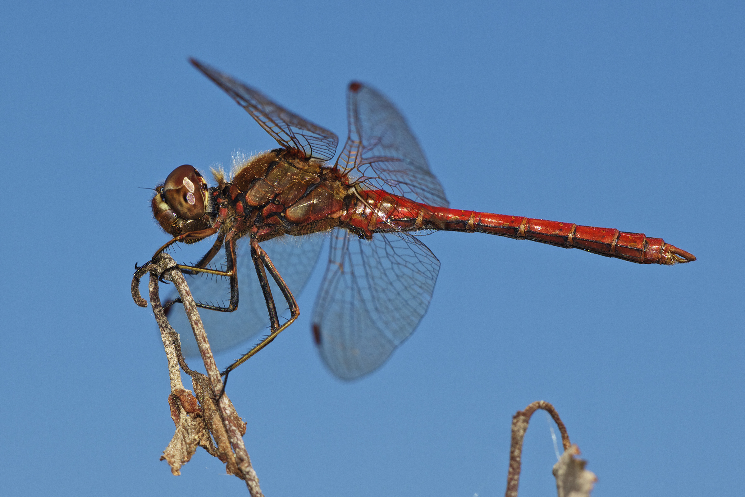 Male Vagrant Darter (Sympetrum vulgatum), Wittgensdorf, Germany